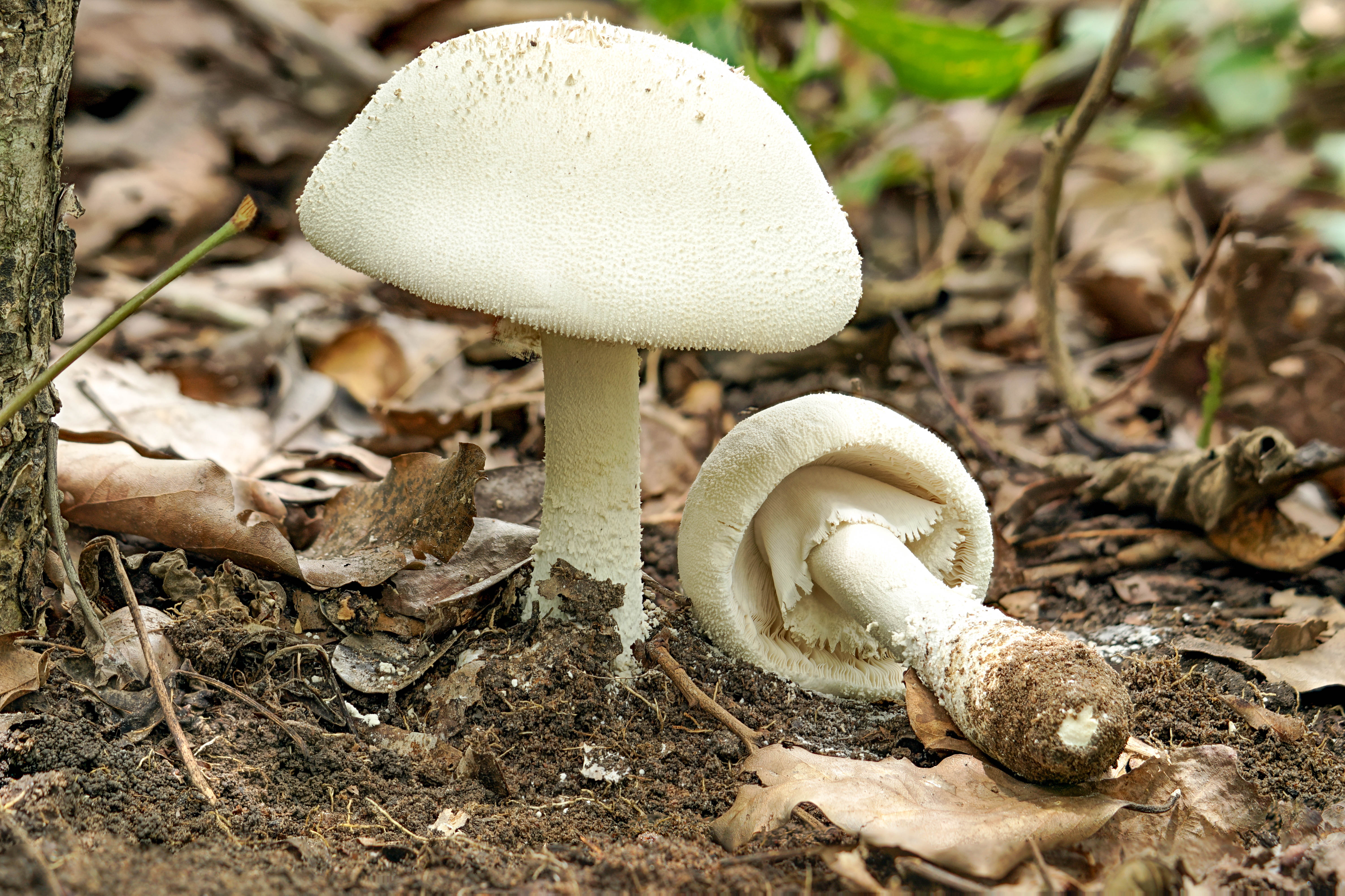 A beautiful Amanita (Amanita strobiliformis), species of fungus in ectomycorrhizal symbiosis with trees in forest reserve of Tchaourou-Toui-Kilibo. North Benin